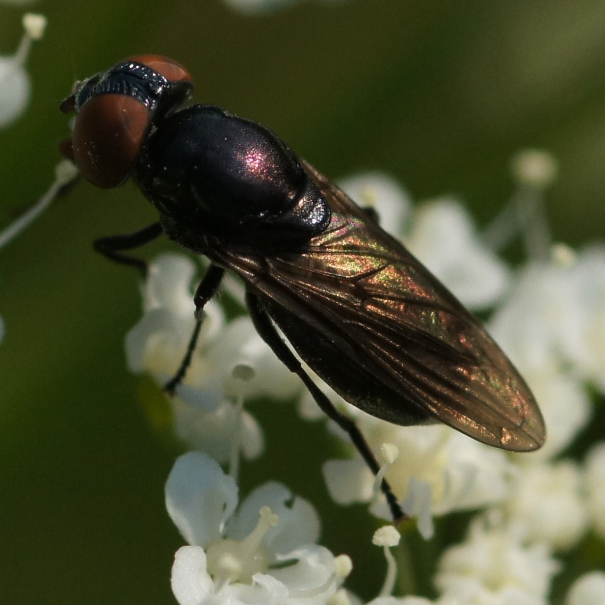 Chrysogaster coemiteriorum (female). Picture taken in Skåne, Sweden.